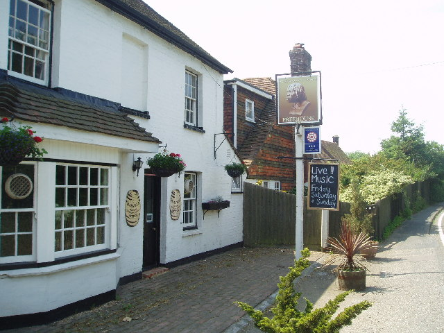 Piltdown Man public house. Piltdown Man was the famous hoax ! Plenty has been written about this well known fraud. The pub takes its name from 'it' exposed in 1953.